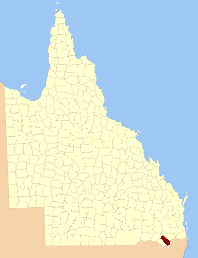 Location of the county in Queensland, one of the Cadastral divisions of Queensland